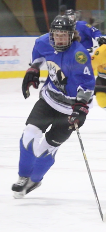 Sydney Wolf Pack Ice Hockey team Uniform 2015 Other information Please feel free to use and share this image as you please, no credit necessary